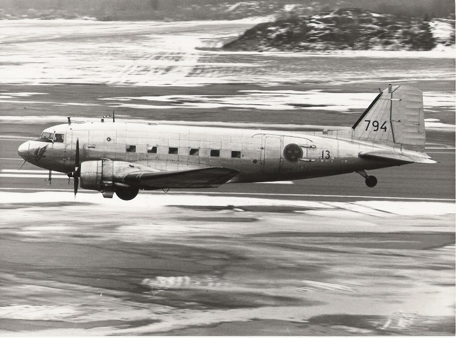 Swedish Air Force Tp 79, C-47A-80-DL, c/n 19771, formely USAAF serial 43-15305, then Scandinavian Air Lines as OY-DDY, then Scandinavian Air Lines as LN-LMR, then Swedish Air Force as 79004, then Transport Aérien Zaireis 9Q-CYE